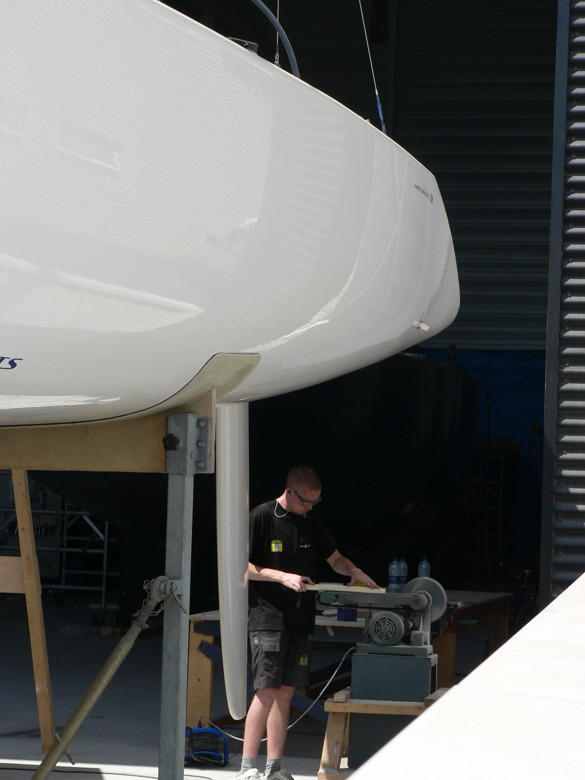 Coupe de l'America 2007 - Coupe de l'America 2007 - Victory Challenge